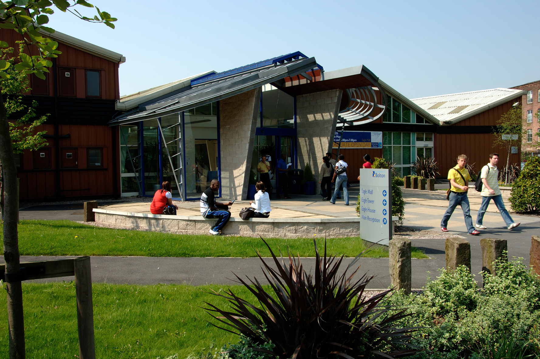 University of Bolton - Eagle Entrance with Students